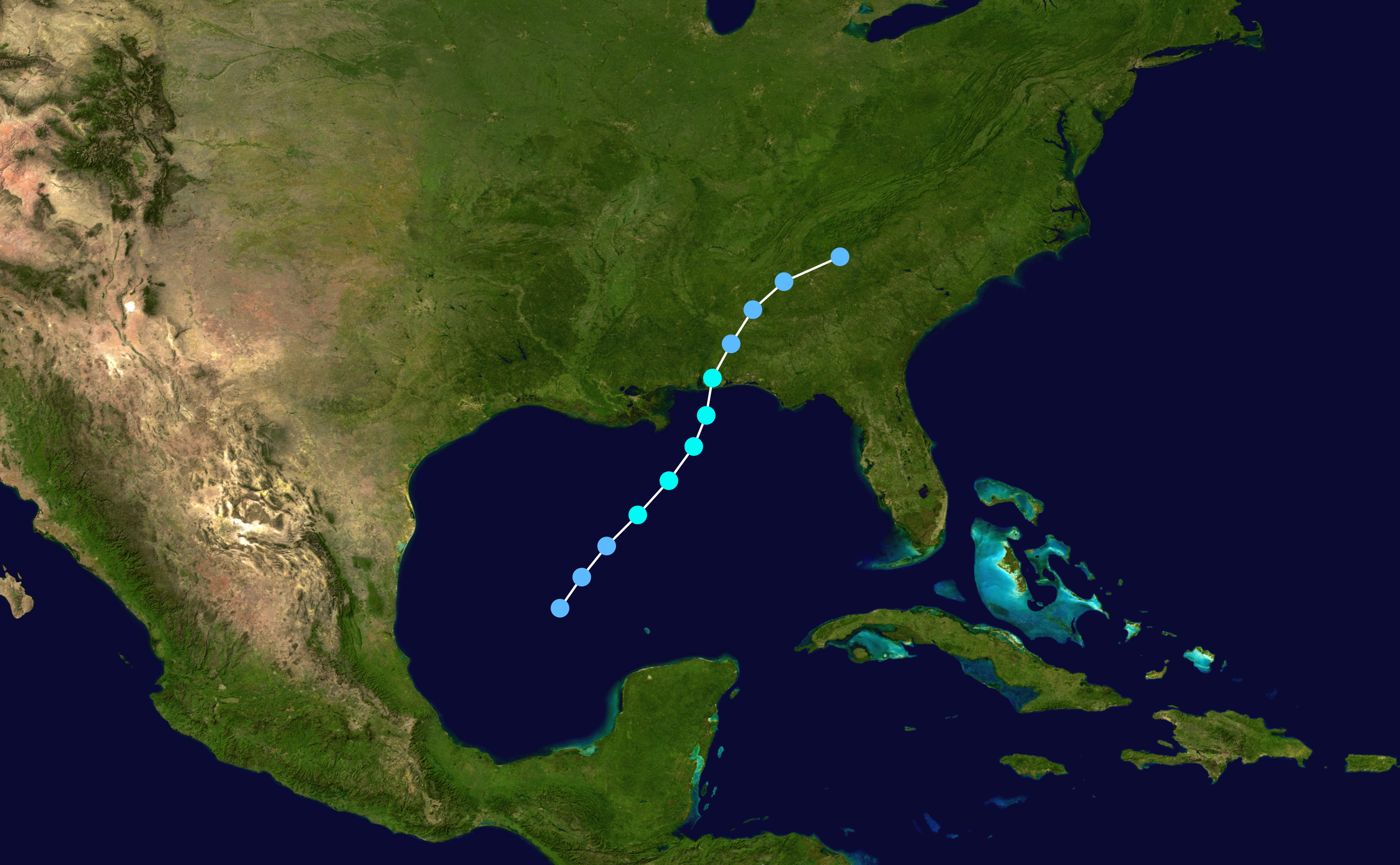 Tropical Storm Irene (1959) track. Uses the color scheme from the Saffir-Simpson Hurricane Scale.